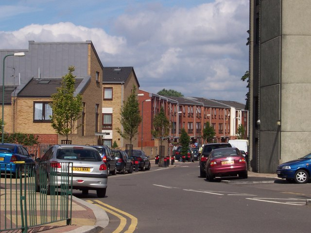 Lawrence Avenue, Stonebridge NW10 Part of the Stonebridge redevelopment scheme